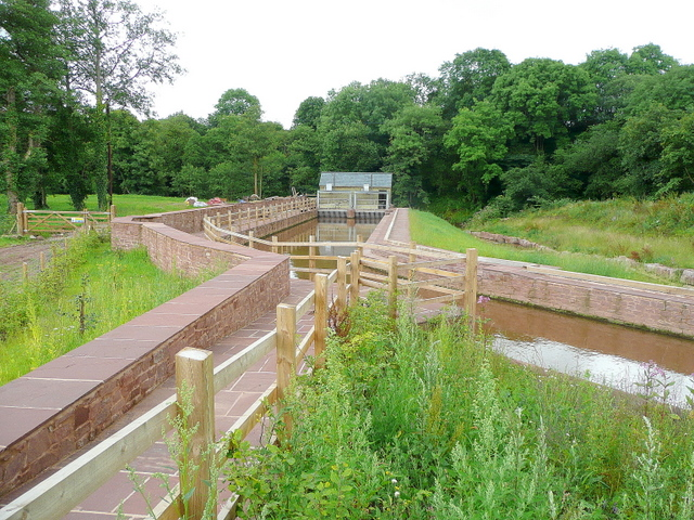 New fish pass at Osbaston Weir Recently completed, this construction allows salmon to enter the Monnow system by negotiating the weir built 90 years ago.